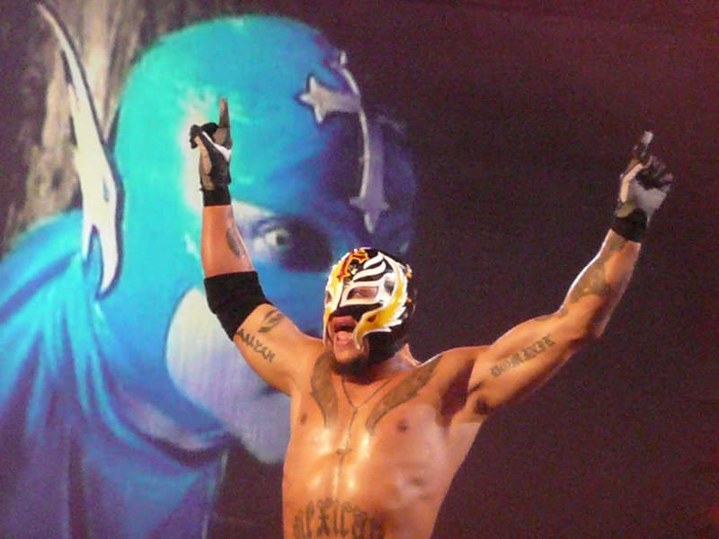 Taken at the Manchester Evening News arena, 10th November 2008 at the WWE Raw taping.